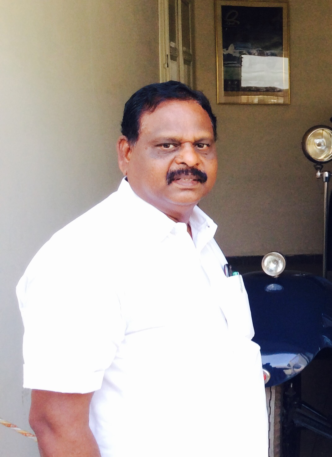 Taken during the visit of Parliamentary Standing Committee on Science and Technology,Environment and Forests,Uttarakhand.